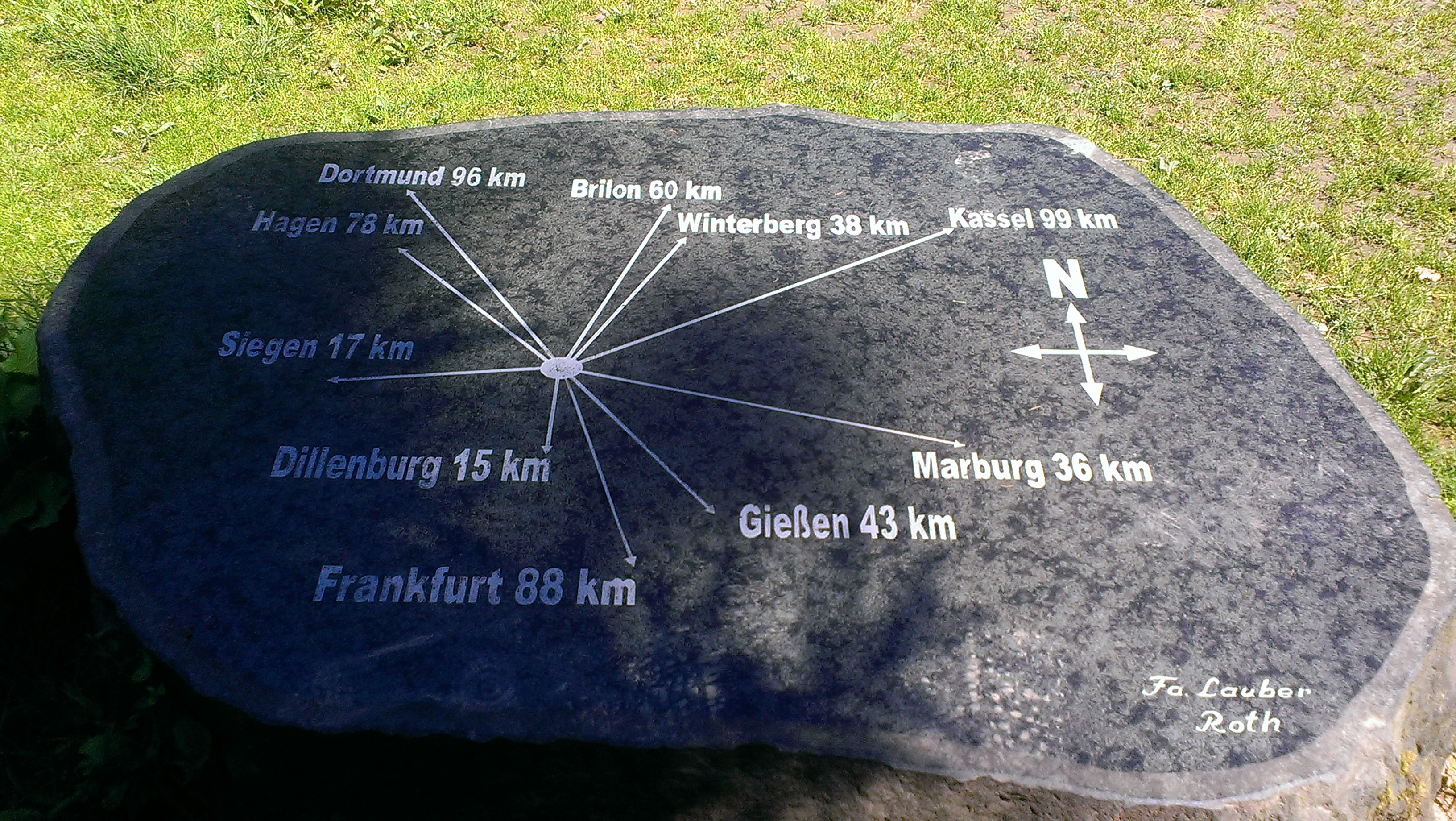 distances from Jagdberg to German cities